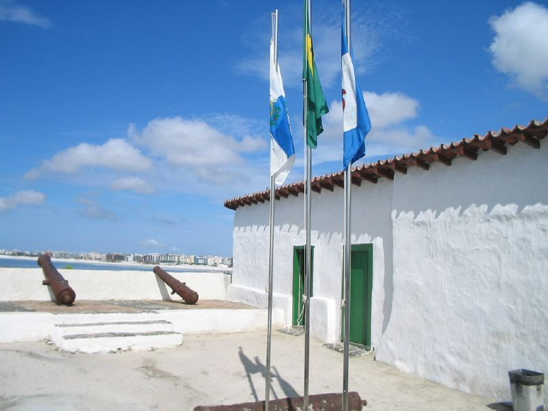 Courtyard of Sao Mateus Fort in Cabo Frio, Brazil